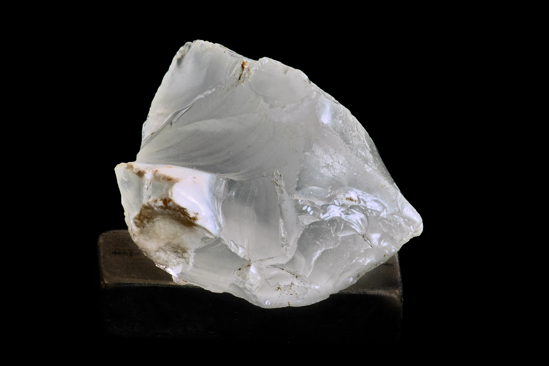 Hyalite. Locality: Bohouskovice near Kremze, Czech Republic. 15 mm.